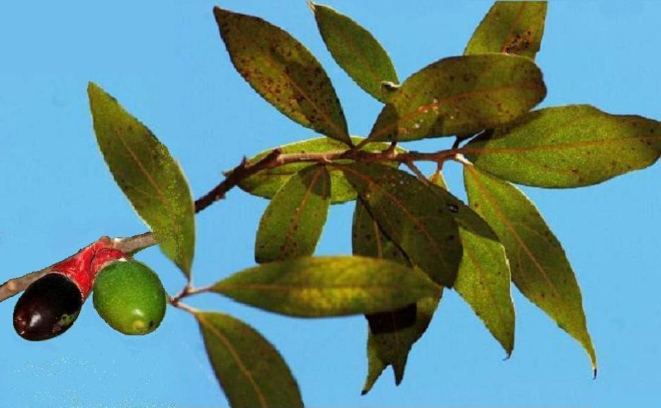 Lauraceae tree Enlidcheria paniculata leaves and fruit